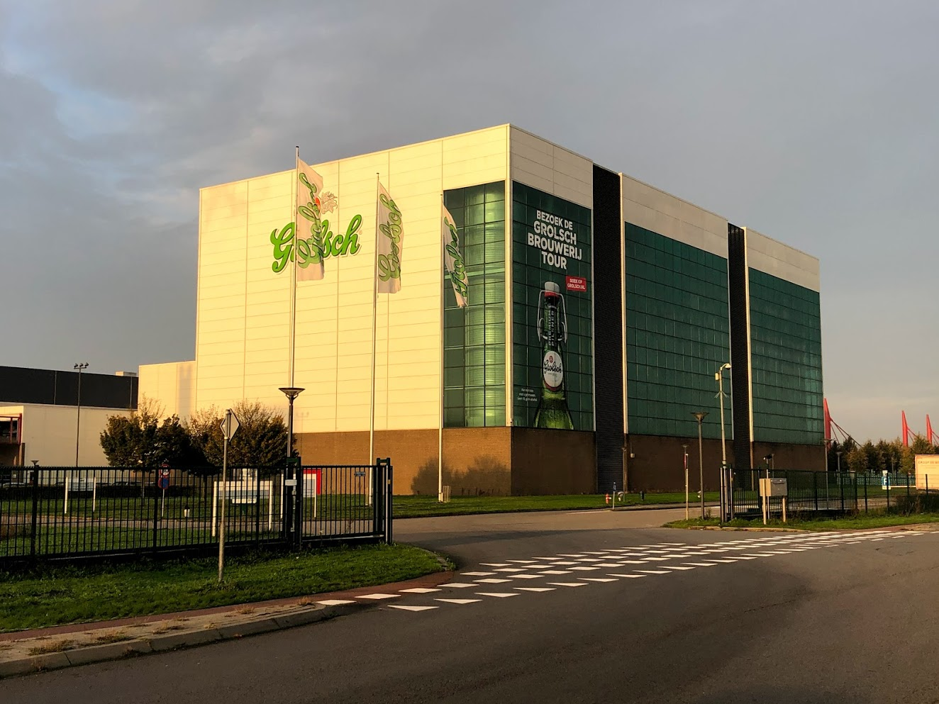 A picture and a video in front of the Grolsch Brewery in the Netherlands.